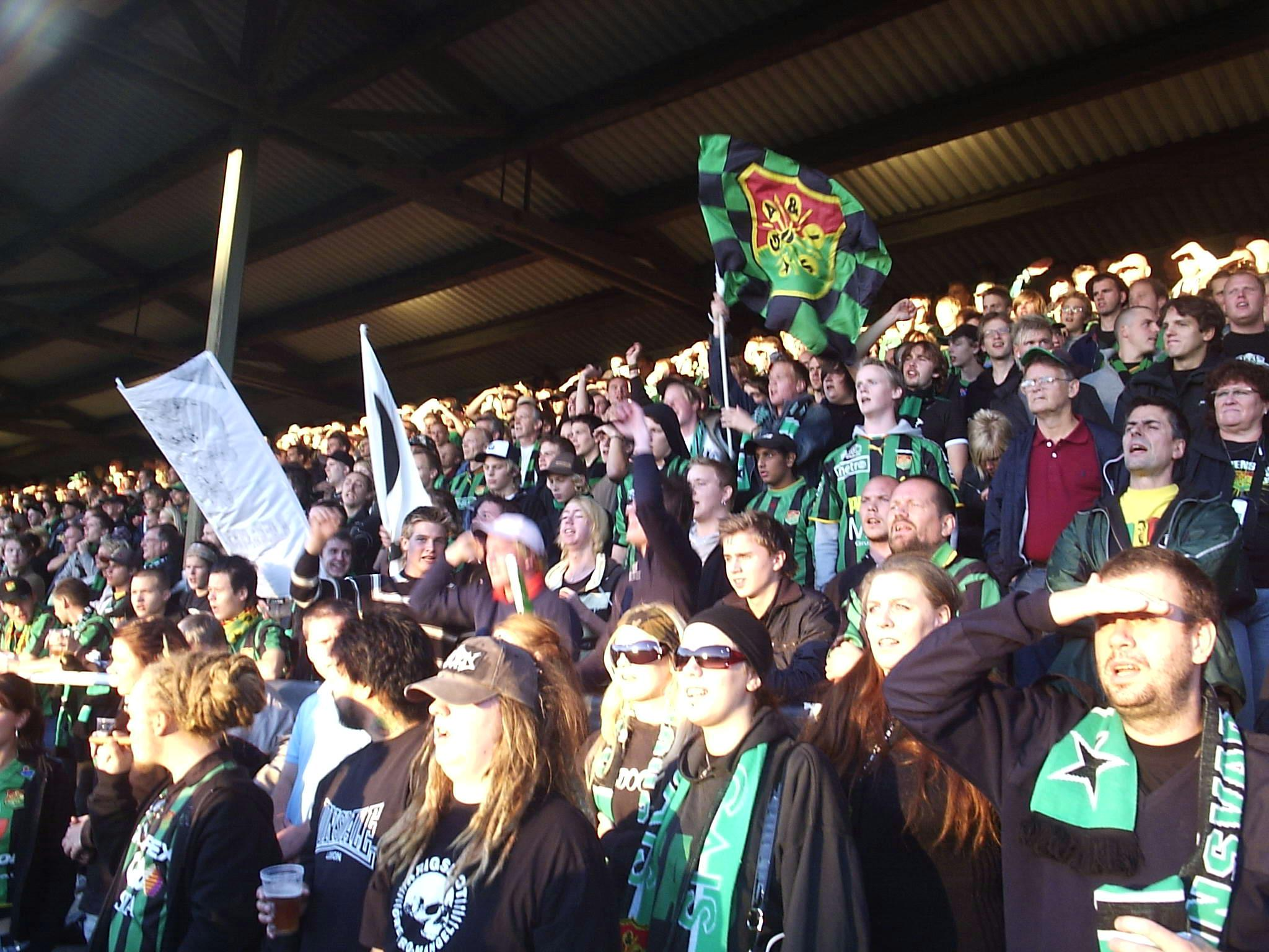 Football game GAIS-Helsingborgs IF in Gothenburg, Sweden.